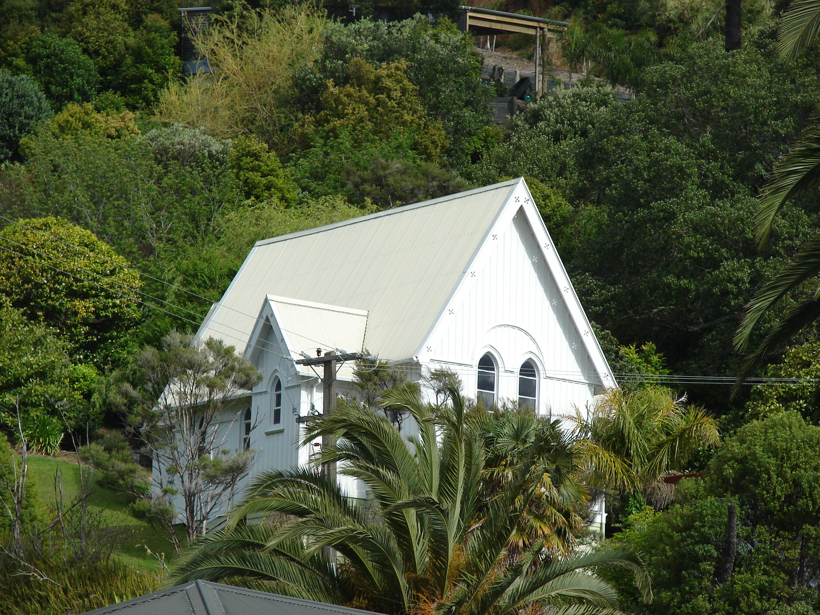 St Paul's Church (Anglican), 9 Old Church Road, Whangaroa, Kaeo 0478, New Zealand.